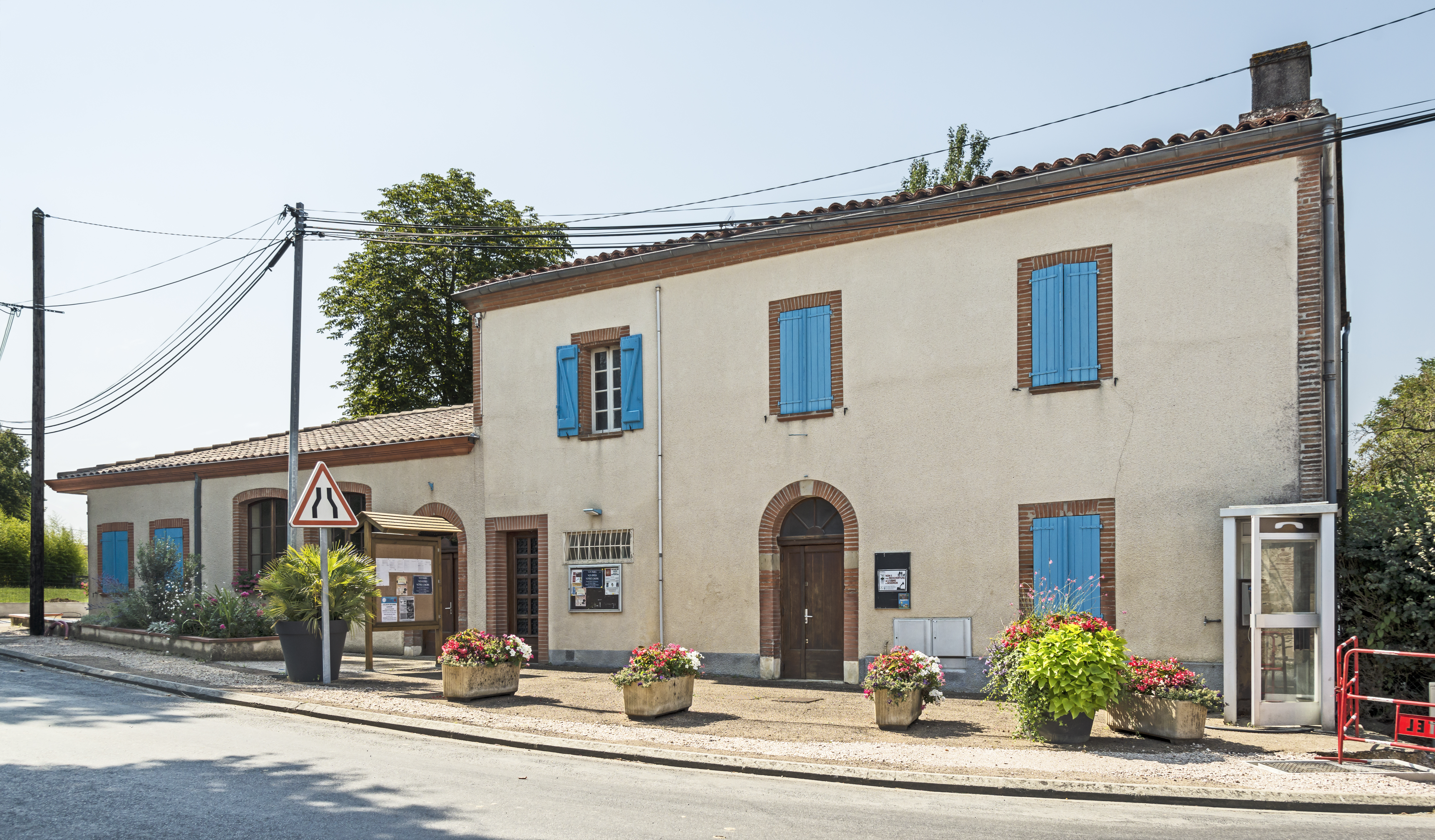 Teulat, Tarn, France - Facade of town hall